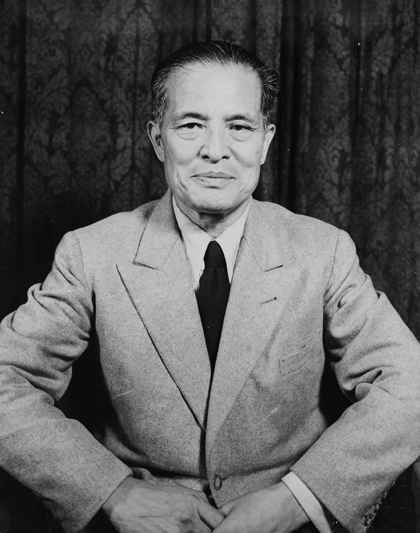 Hiroshi Ōshima during the trial for war crimes at International Military Tribunal for the Far East